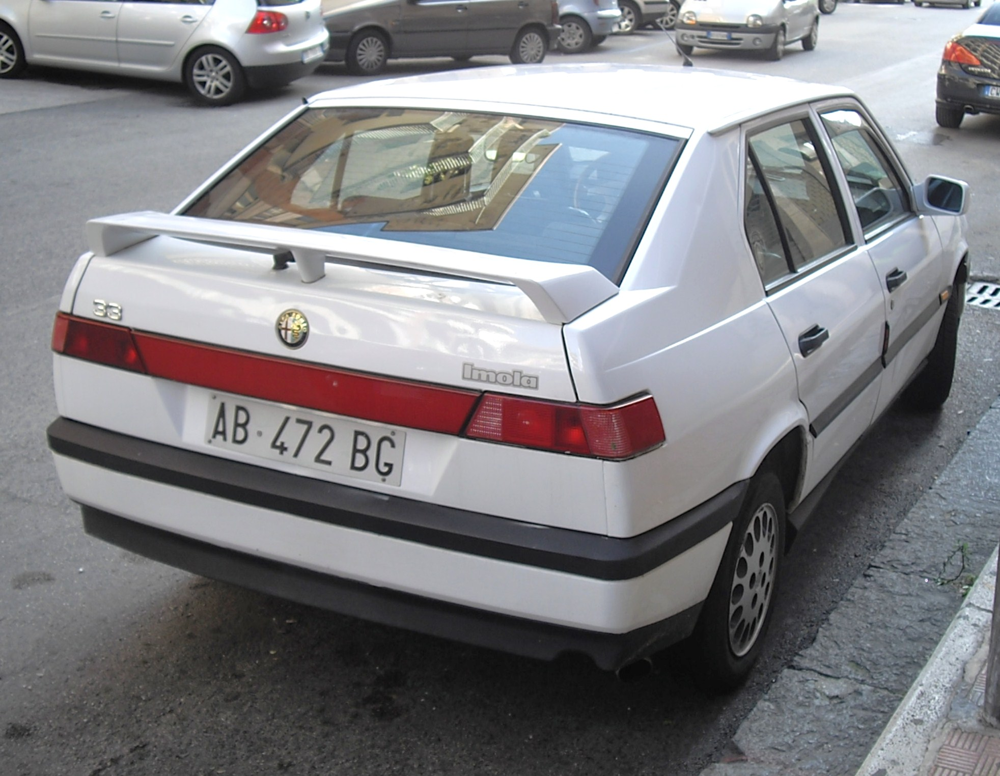 Alfa Romeo 33 Imola